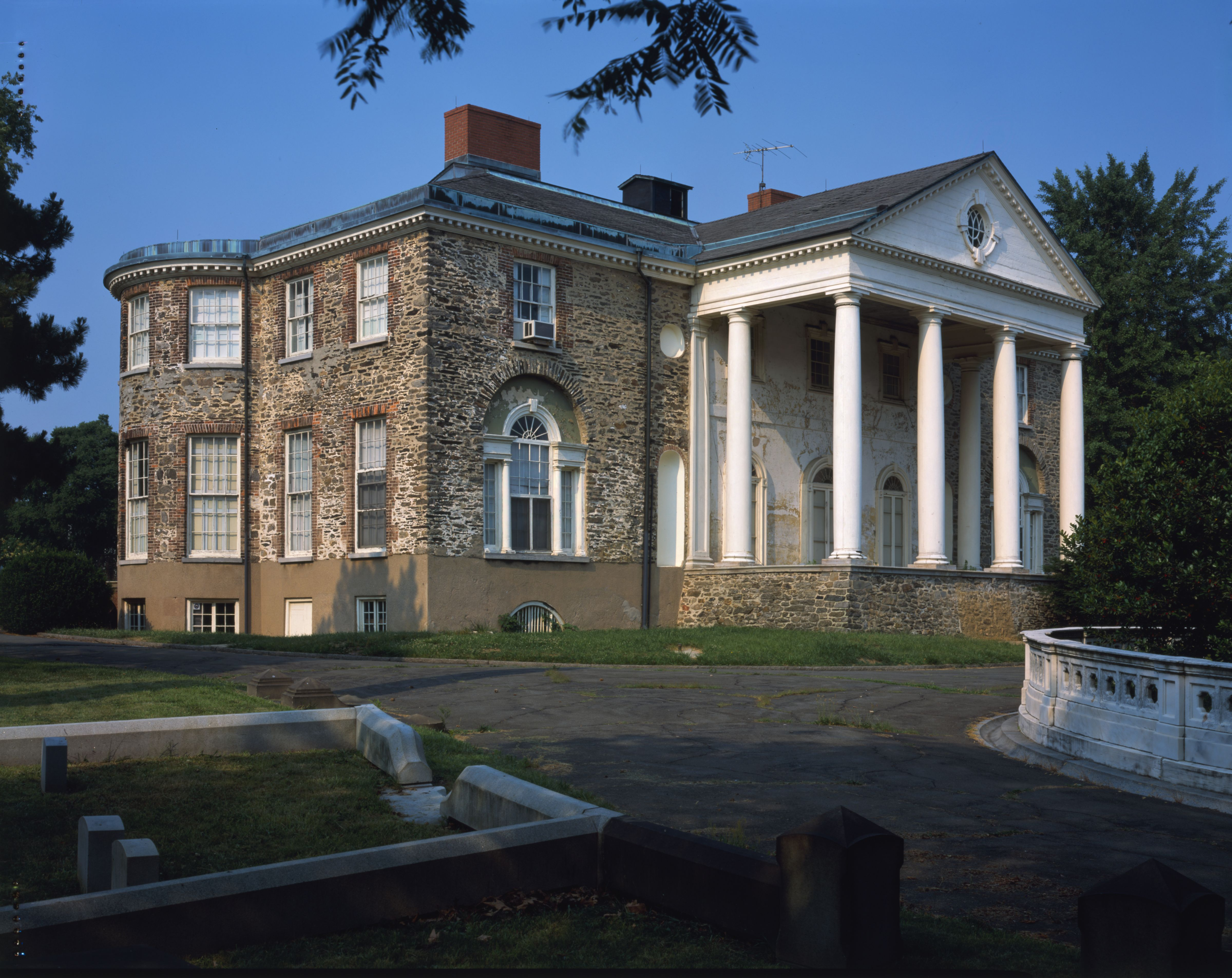 The Woodlands in Philadelphia a National Historic Landmark and on the NRHP since December 24, 1967. At 40th Street and Woodland Avenue in the University City neighborhood of West Philly. Mansion built ca. 1742, expanded 1787-90, by Andrew Hamilton.